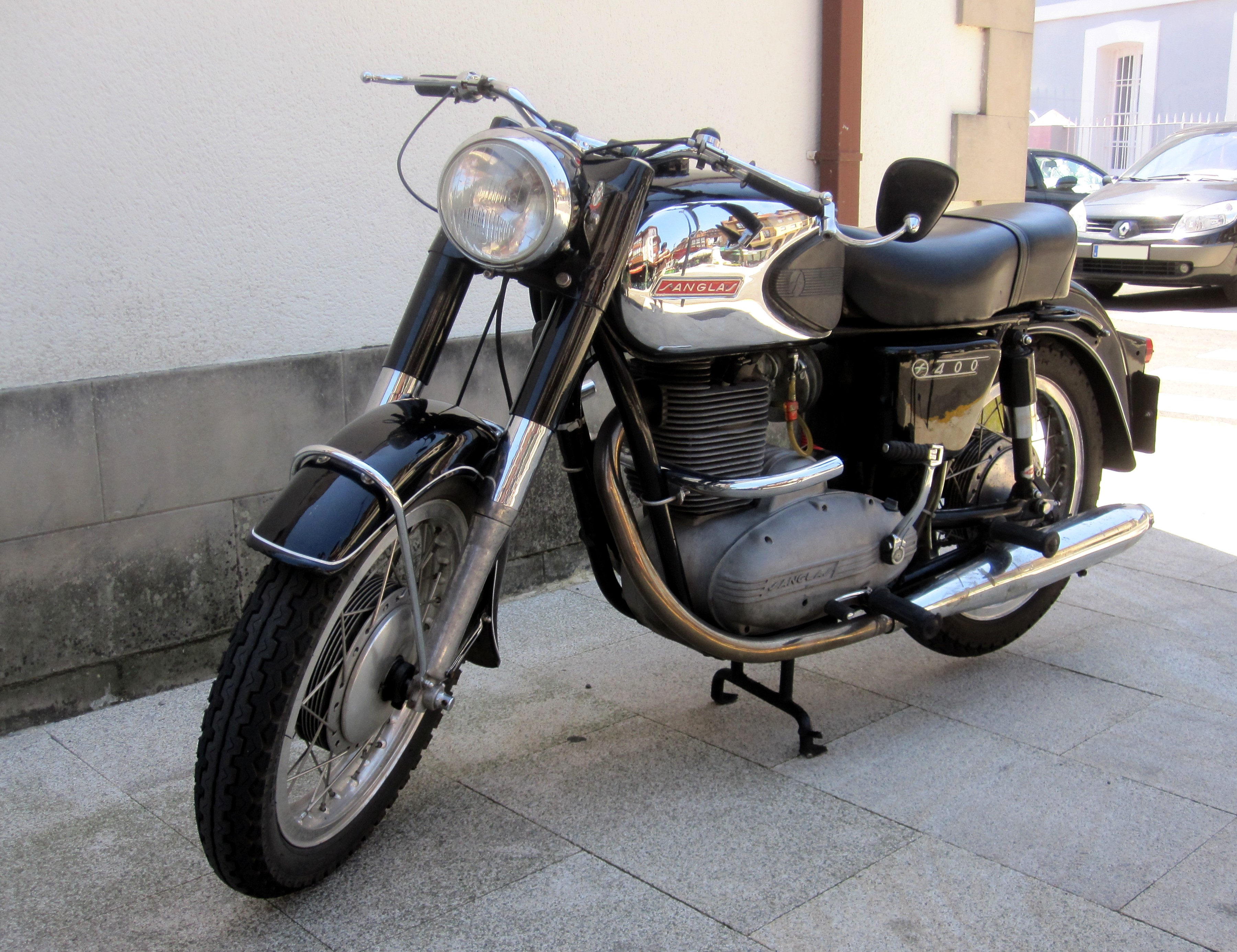 I'm not keen on bikes at all, but I kind of like classic ones, specially if they're Spanish, like this Sanglas 400.